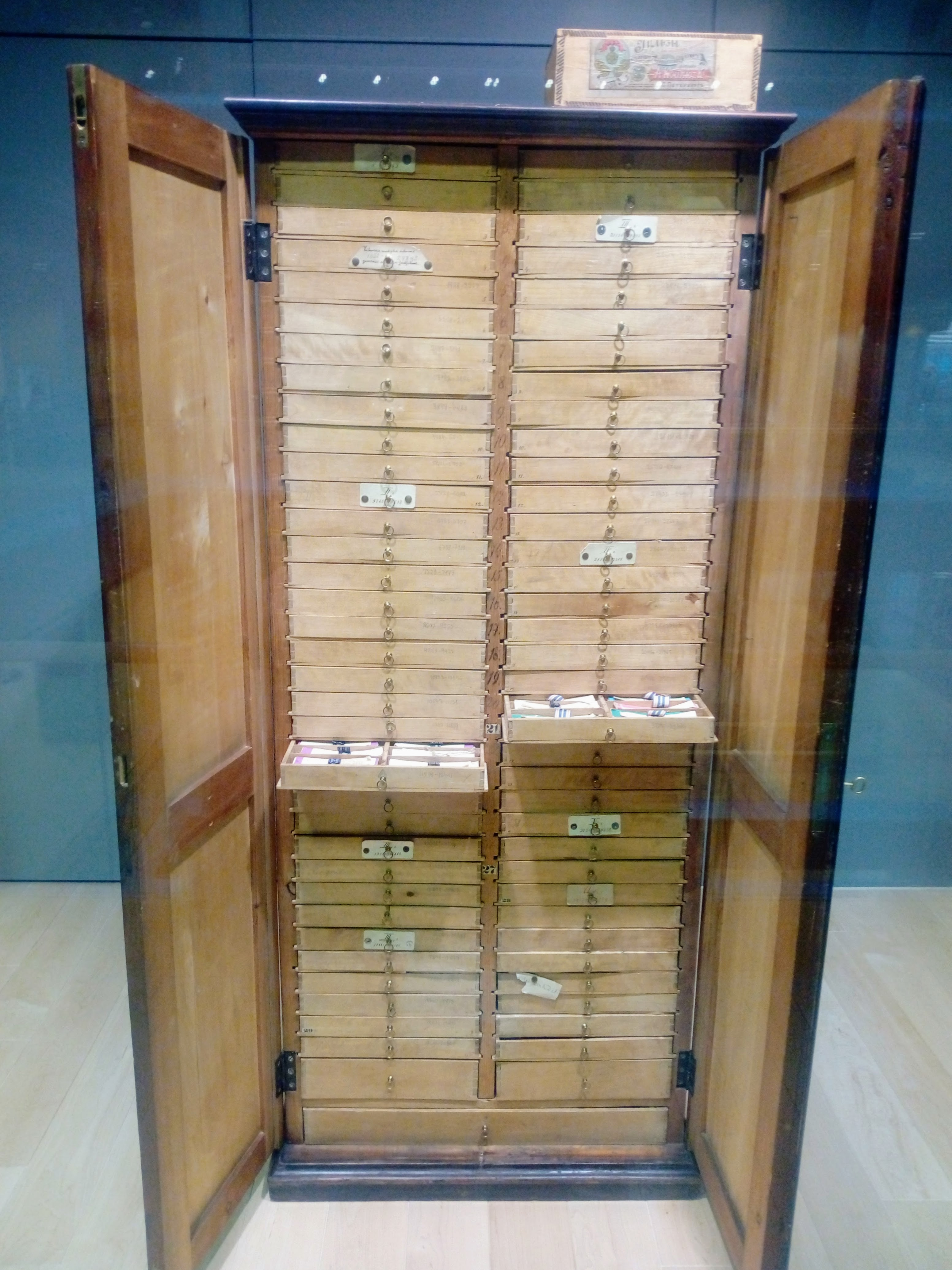 Original Cabinet of Folksongs at the National Library of Latvia This photo has been taken in the country: Latvia